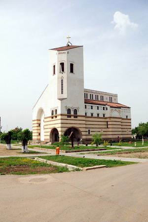 The Orthodoc Church in Dumbravita